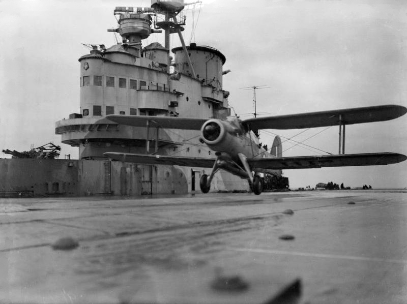 A torpedo-carrying Fairey Albacore aircraft of 820 Squadron, Fleet Air Arm taking off from the flight deck of HMS Victorious (R38), which as part of the Home Fleet is covering convoys to and from Russia, 2 - 9 March 1942.